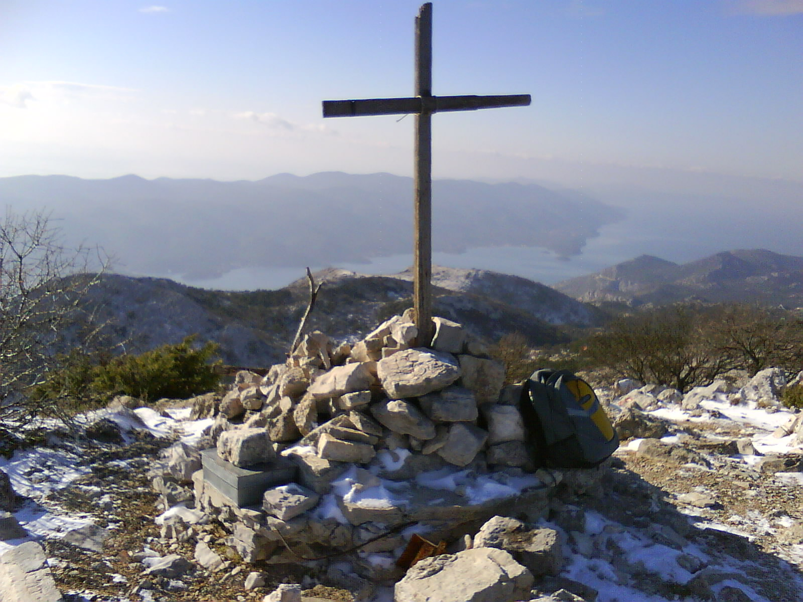 Peak of mount od St. Ilija, Pelješac